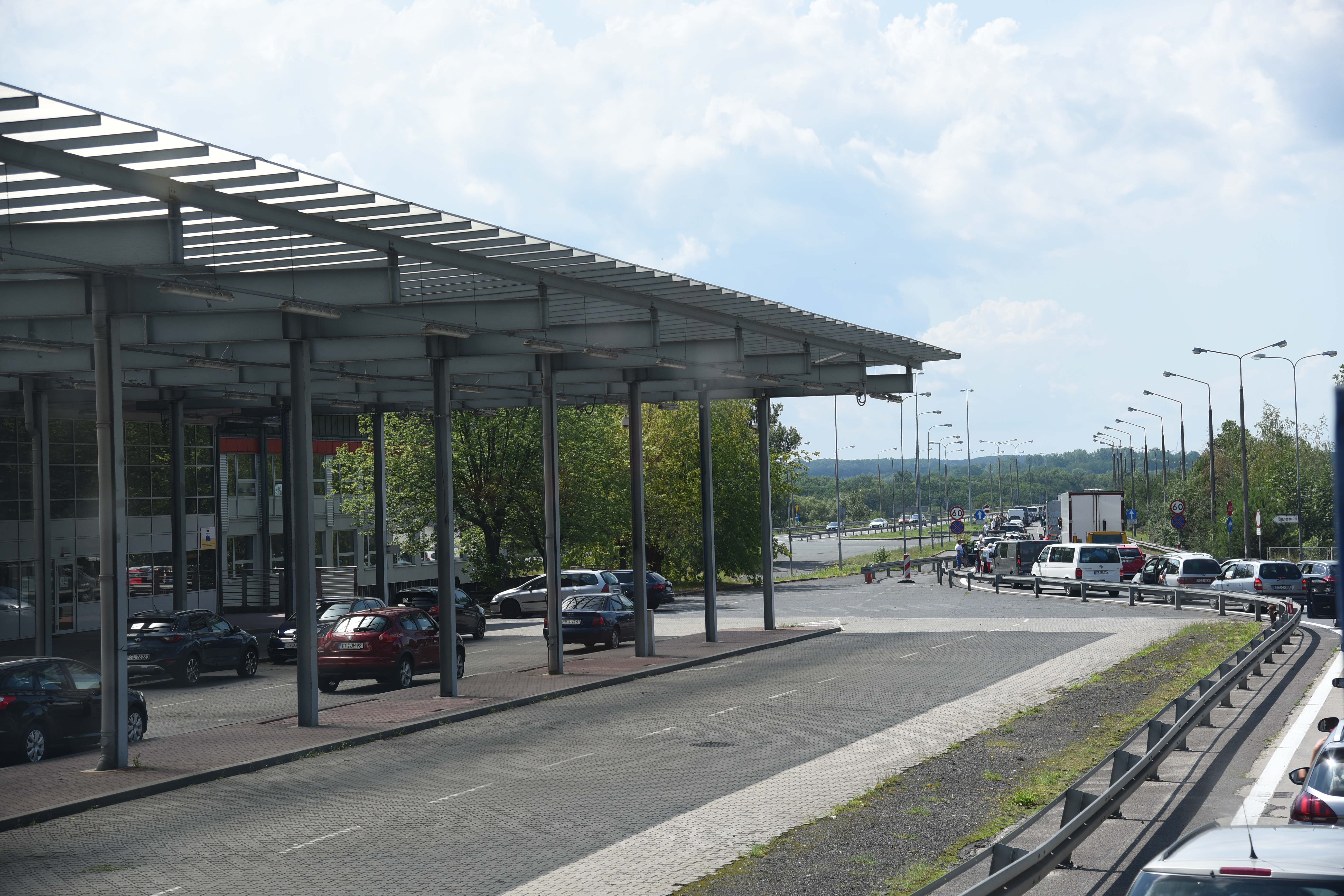 Świecko-Frankfurt border crossing